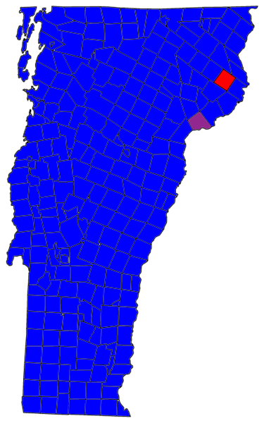 Results of the Vermont senatorial election, 2006 by municipality. Blue indicates towns that voted for Sanders, red (Granby) for Tarrant, purple (Waterford) with a split vote.